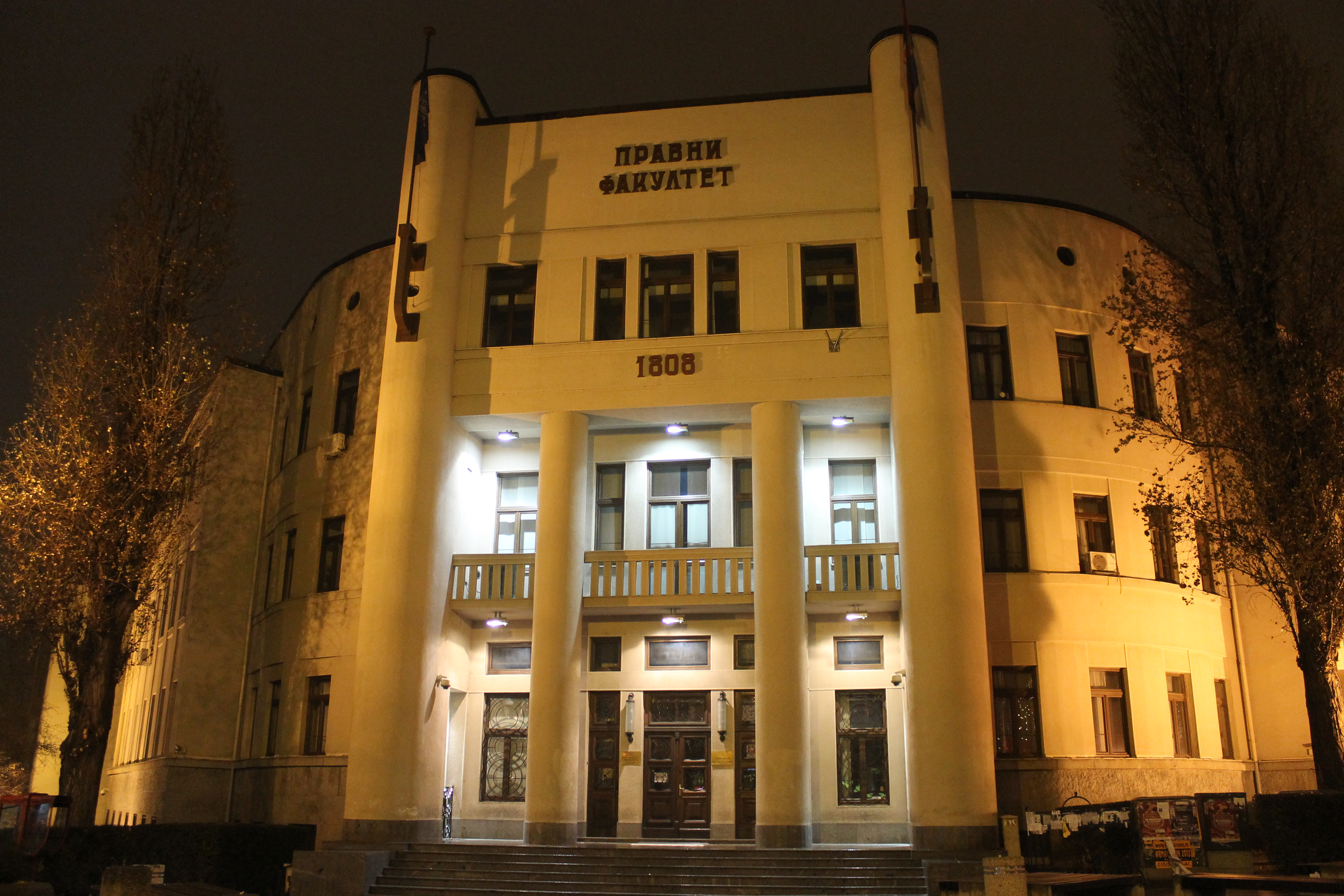 Belgrade Law School at night (January 2012)